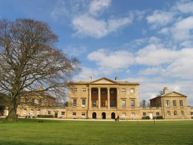 Basildon Park in Berkshire, western aspect